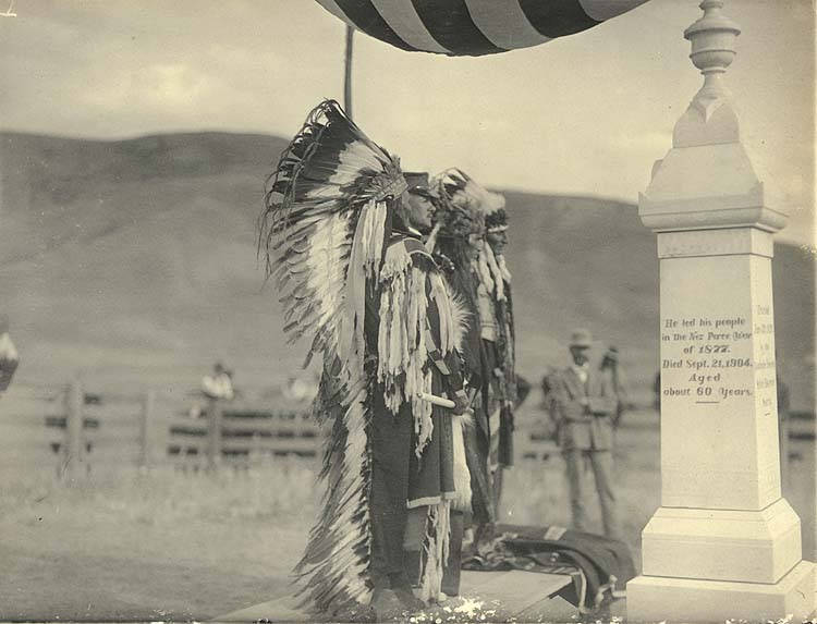 Three men in full ceremonial dress and a man in military uniform stand on a small wooden platform before the new tombstone. Two of the men have full feathered headdresses, the 3rd wears a fur & horns headdress. Their clothing is decorated and beaded, and man nearest camera holds a pipe. (Same man in NA617) A blanket lays beside them on the platform. Wooden fence is visible in the background. Tombstone inscription facing the camera reads: He led his people in the Nez Perce War of 1877. Died Sept. 21, 1904. Aged about 60 years.